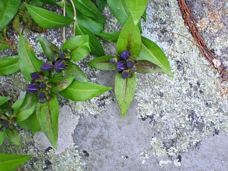 Closed Gentian (Gentiana andrewsii) at Garden in the Woods, Framingham, MA. Christine Drew. 2006.